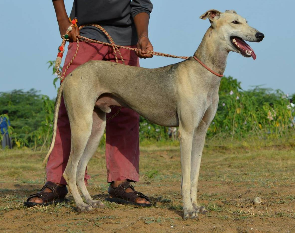 Lengthy body Kanni